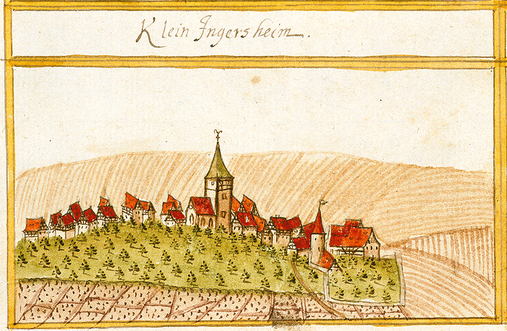 View of Kleiningersheim, Ingersheim, from the forest register books created by Andreas Kieser